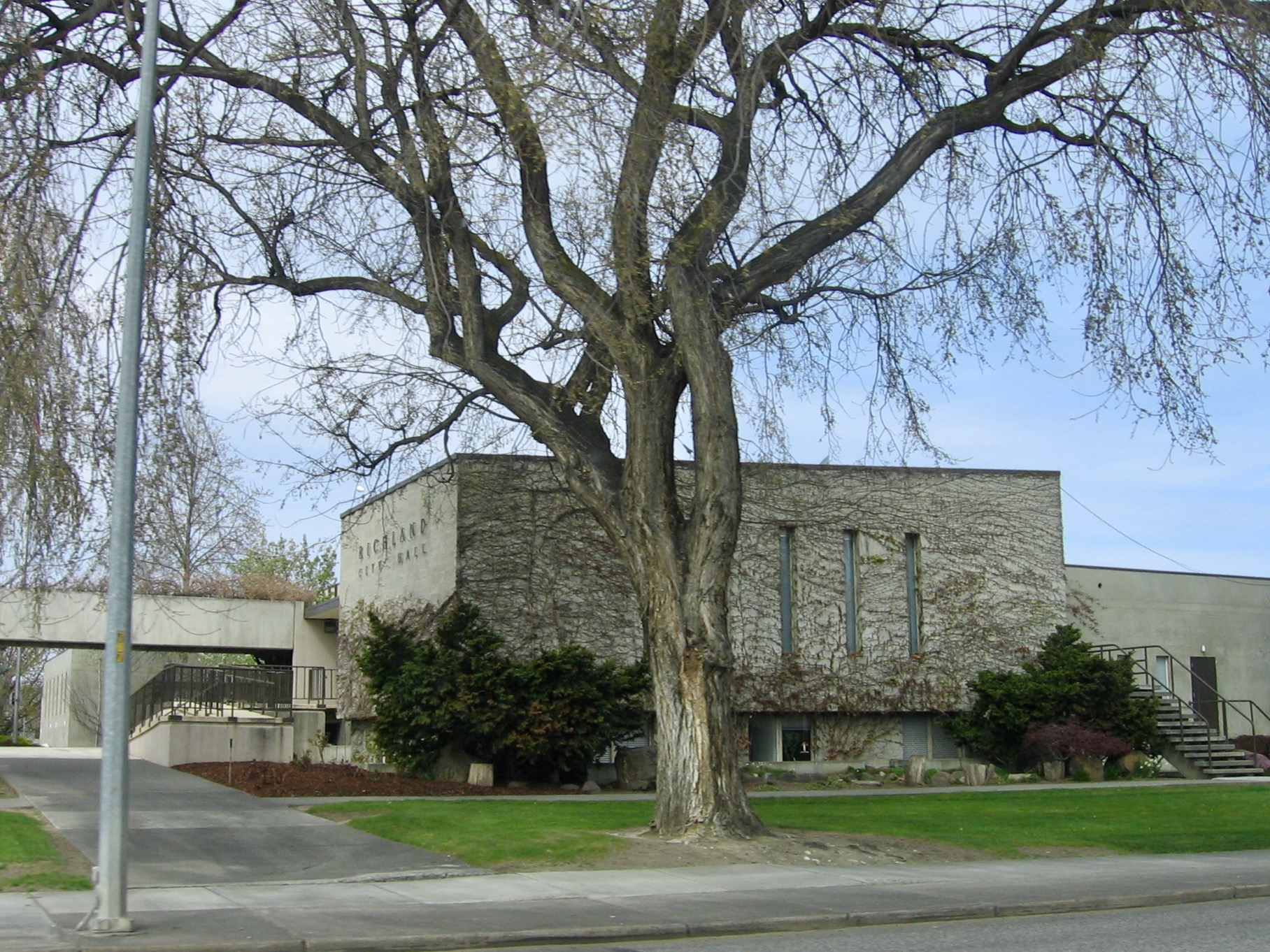 Richland City Hall, taken while driving on George Washington Way.